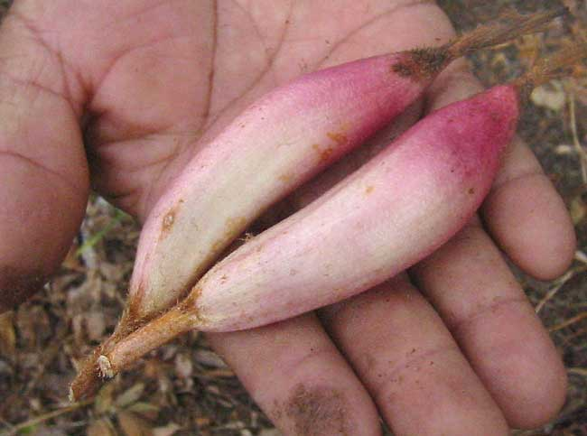 Bromelia karatas fruits. Edible after removal of thin stinging hairs. Similarly to pineapple, eating too much may cause blisters.